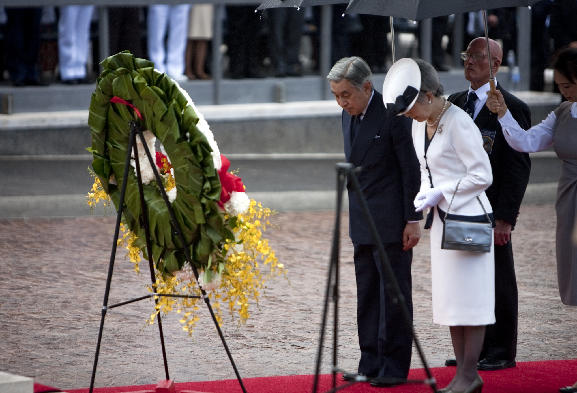 Emperor Akihito and Empress Michiko bowed their heads for a moment of silence at the National Memorial Cemetery of the Pacific in Honolulu City, Hawaii State on July 15, 2009.